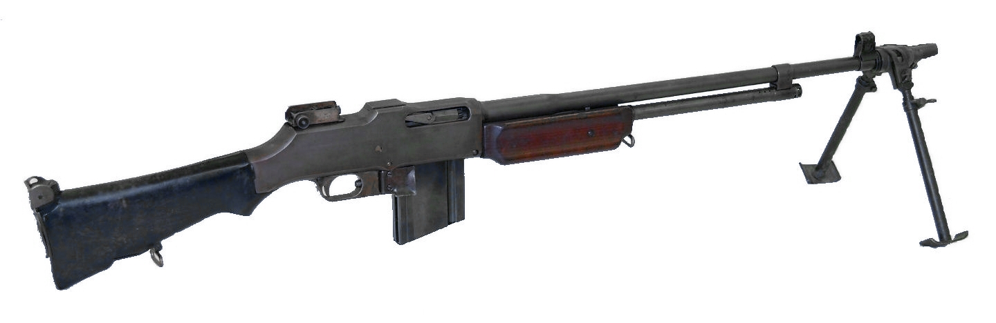 Browning Automatic Rifle, this rifle is part of the Army Heritage Museum Collection. American Heritage Museum.